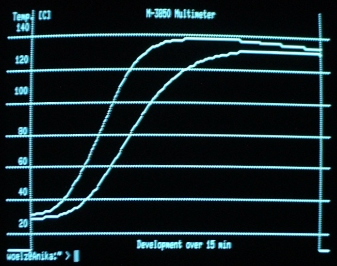 This image shows a line chart displayed on the VT105 using its "waveform graphics" system. The data has been created using gnuplot and converted to VT105 format using Martin Wölz's termcap file. The VT105 was capable of drawing two graphs, the curved lines, along with any number of horizontal and vertical lines for axes, as well as markers, which are not used here. The graphics mode was displayed along with text, which has been used to produce the labels in this example.